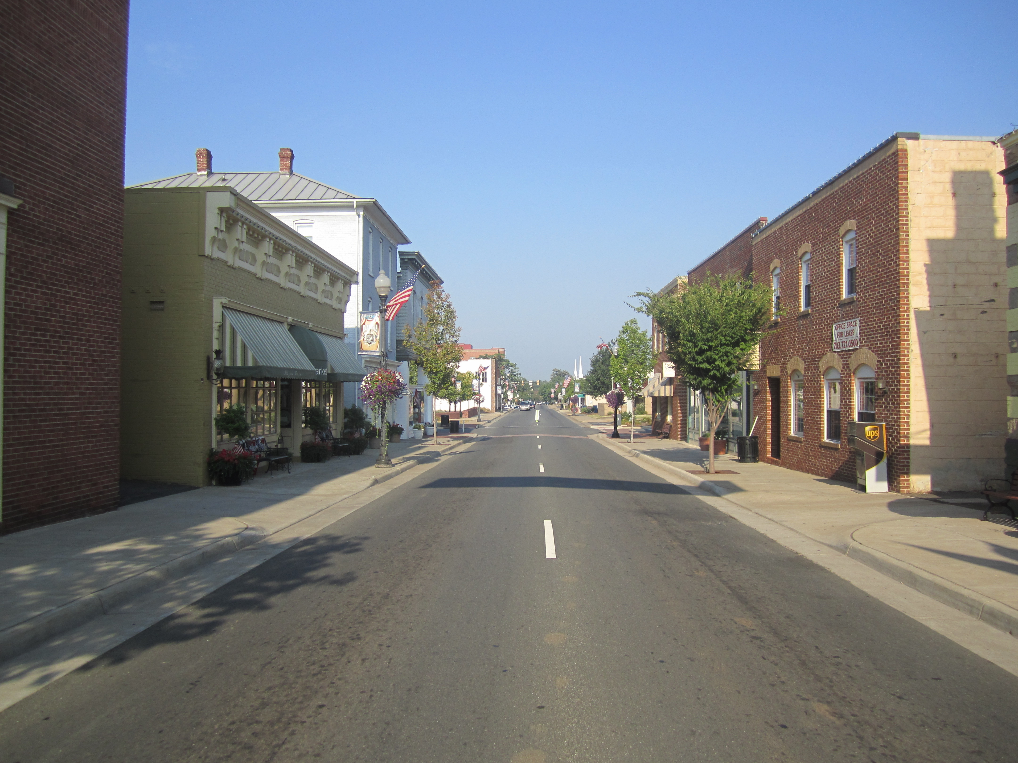 I took photo of downtown in Manassas, VA, with Canon camera.